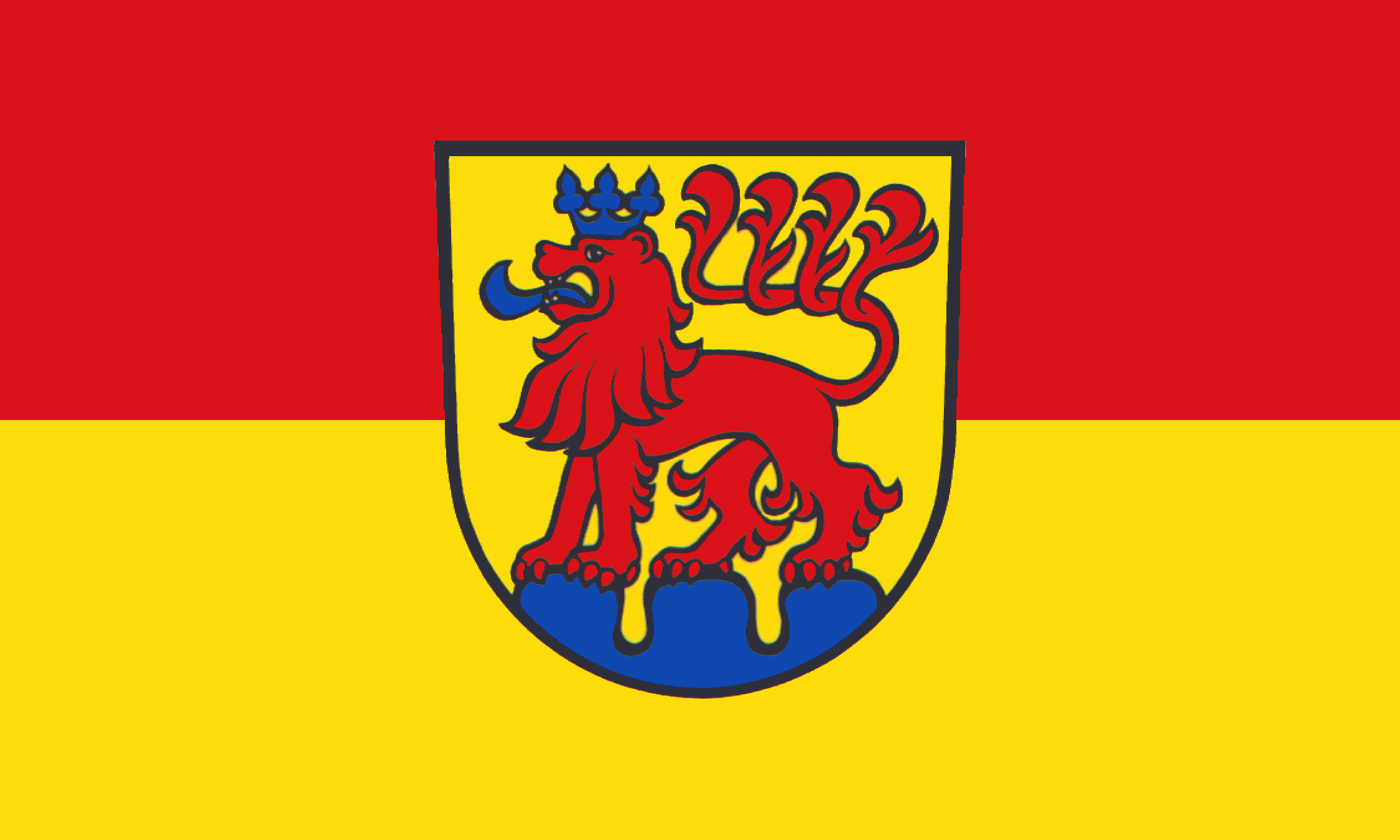 horizontal display flag of the German city of Calw